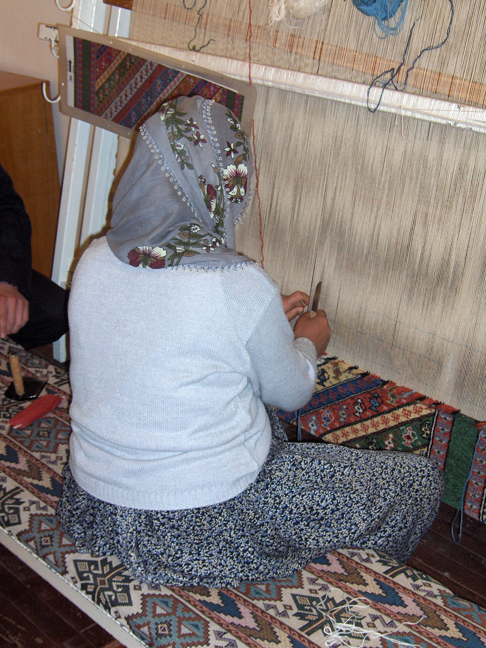 Traditional weaving of a Turkish carpet; Hadosan, Urgüp, Cappadocia, Turkey